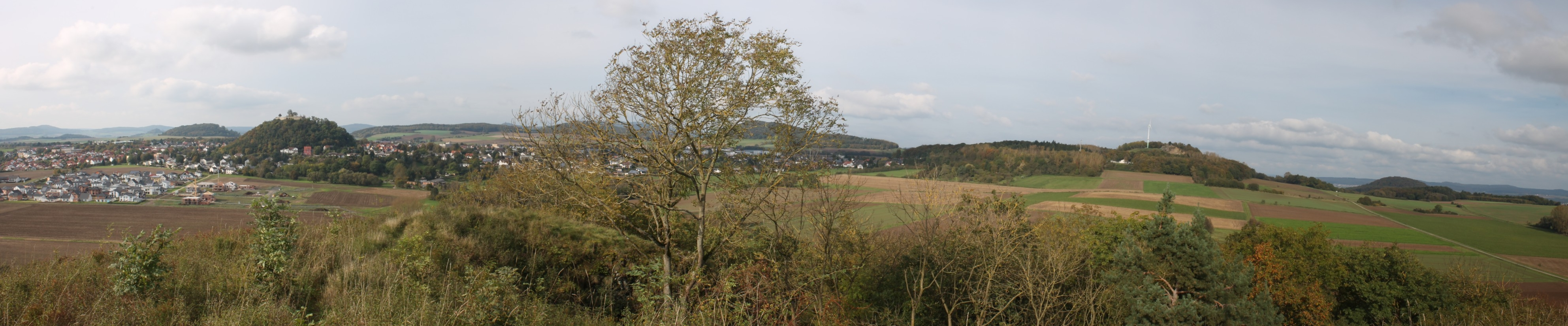 Northern panorama from the top of Mader Stein. On the left of the tree is the town of Gudensberg around the Obernberg castle on the Schlossberg hill. Right of the tree are, from left to right, the Lamsberg with a wind turbine and the Lotterberg.